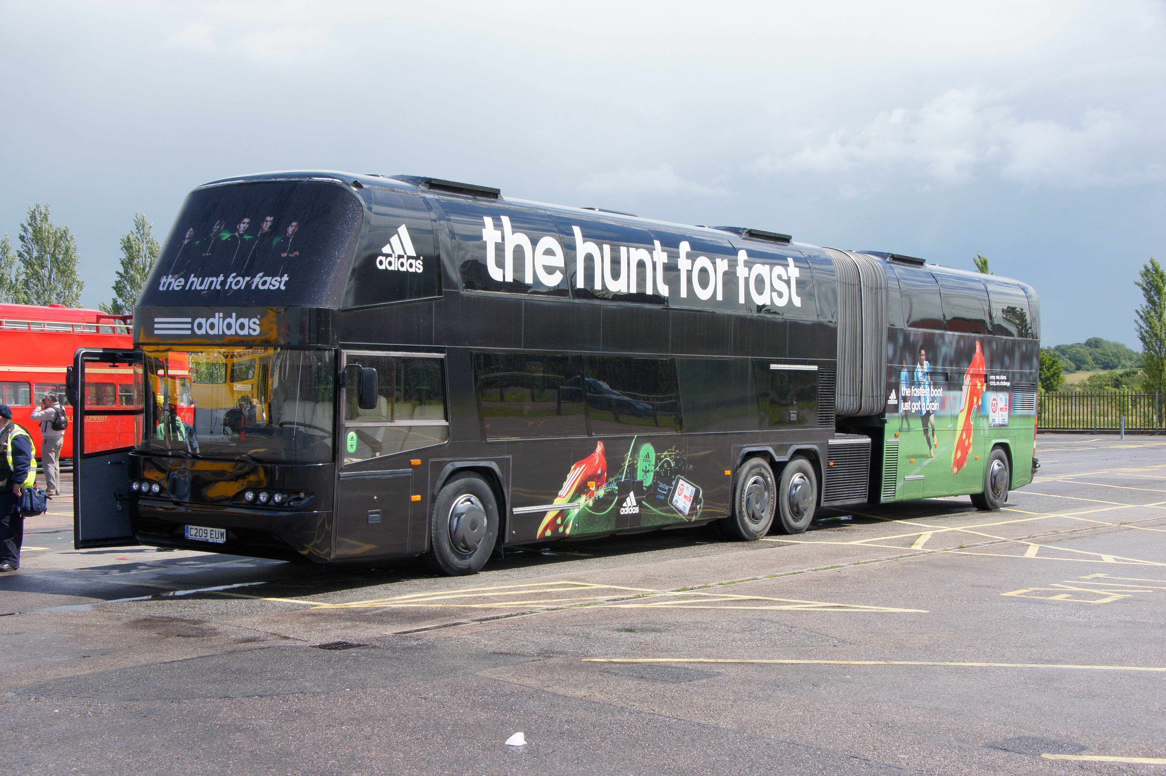 The Neoplan built Jumbocruiser No. 10 (reg. C209 EUW), pictured here at the 2012 North Weald bus rally, in use by Smart Moving Media ( as The Hunt For Fast Road Show, promoting the Adizero F50 micoach football boot around Europe.